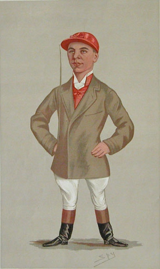 Caricature of Tom Loates (????-1910). New York Times obituary 1910